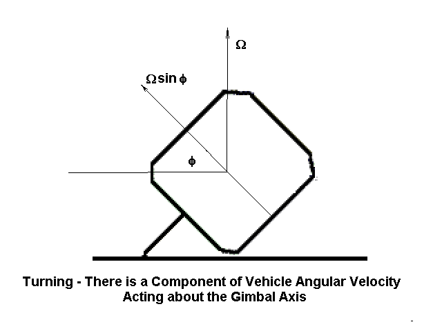 Contribution of vehicle turn rate to gimbal angular velocity.